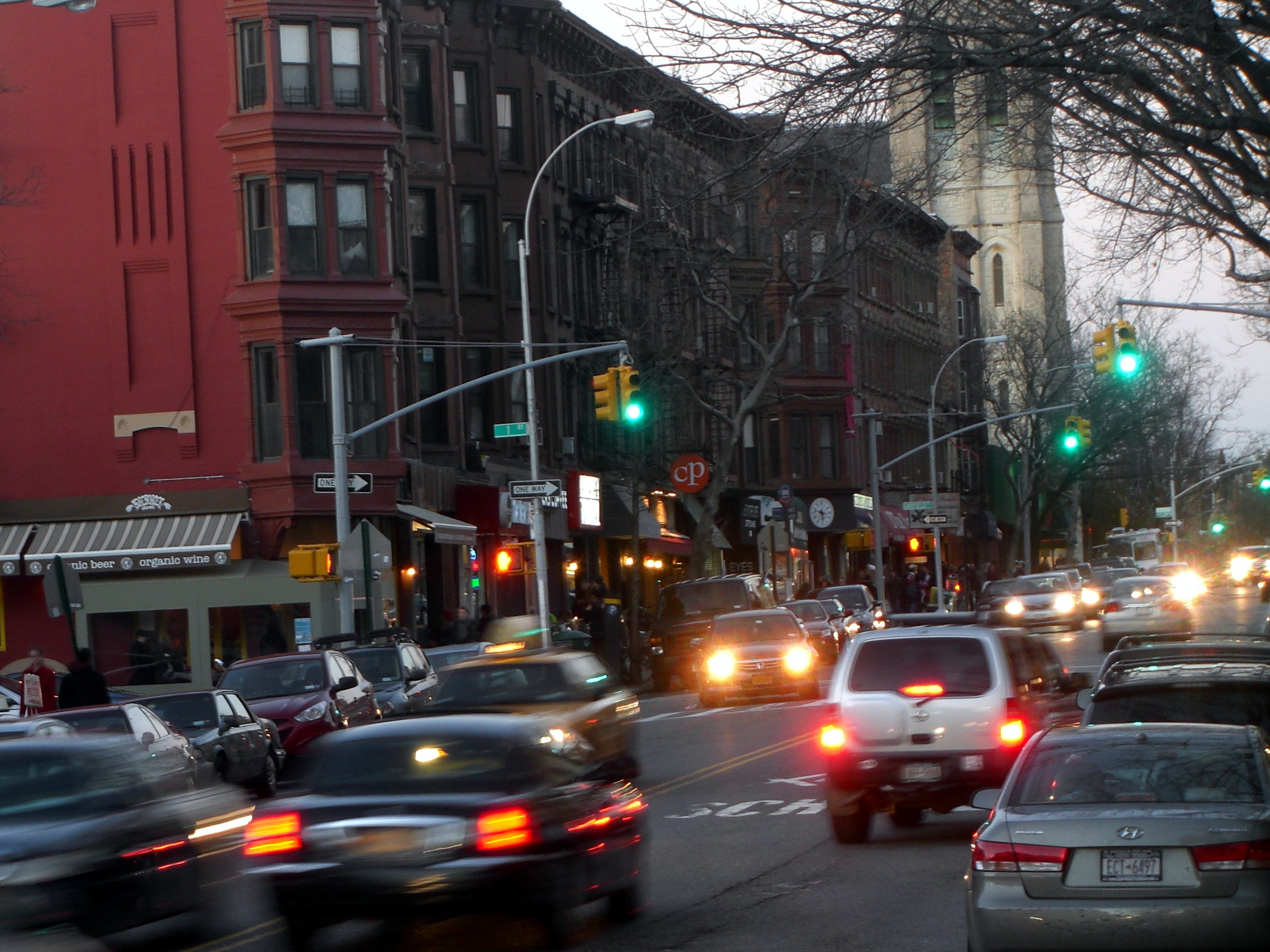 7th Avenue at 1st Street Park Slope